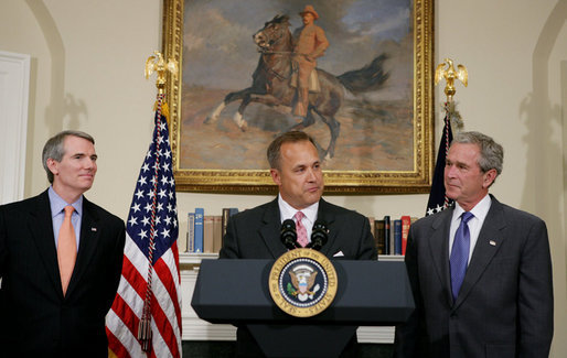 President George W. Bush and outgoing director of the Office of Management and Budget Rob Portman, left, listen as former Iowa Rep. Jim Nussle addresses the media Tuesday, June 19, 2007 in the Roosevelt Room of the White House, thanking President Bush for nominating him to be the next director of the OMB. White House photo by Chris Greenberg